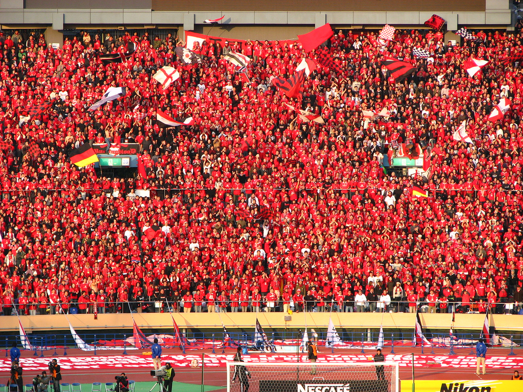 Urawa Reds vs. Gamba Osaka in the Emperor's Cup in Japan on January 1, 2007.